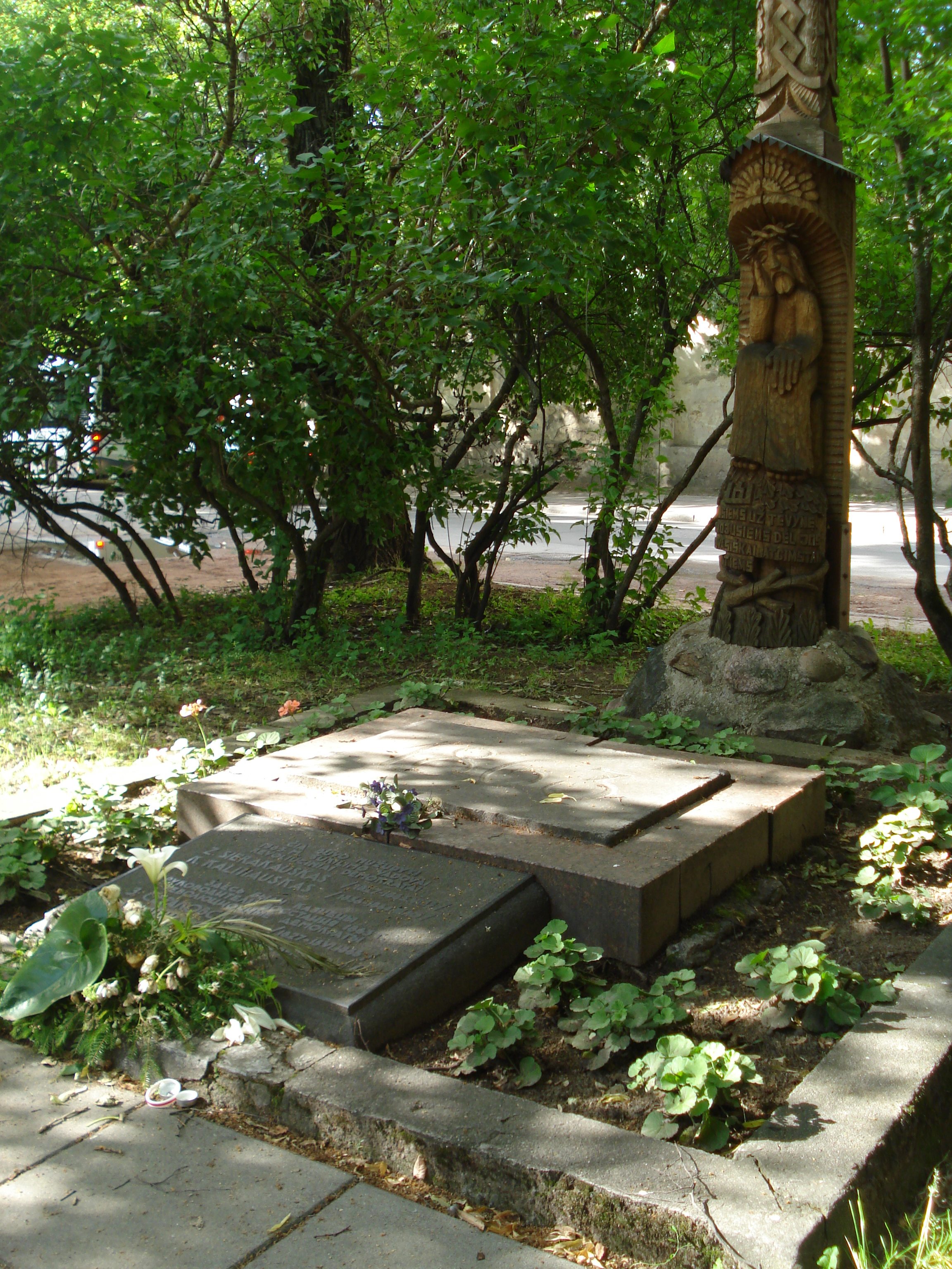 Memorial tablet in the place of Kastus Kalinouski and Zygmunt Sierakowski execution in the Lukiškės Squaree (Vilnius)